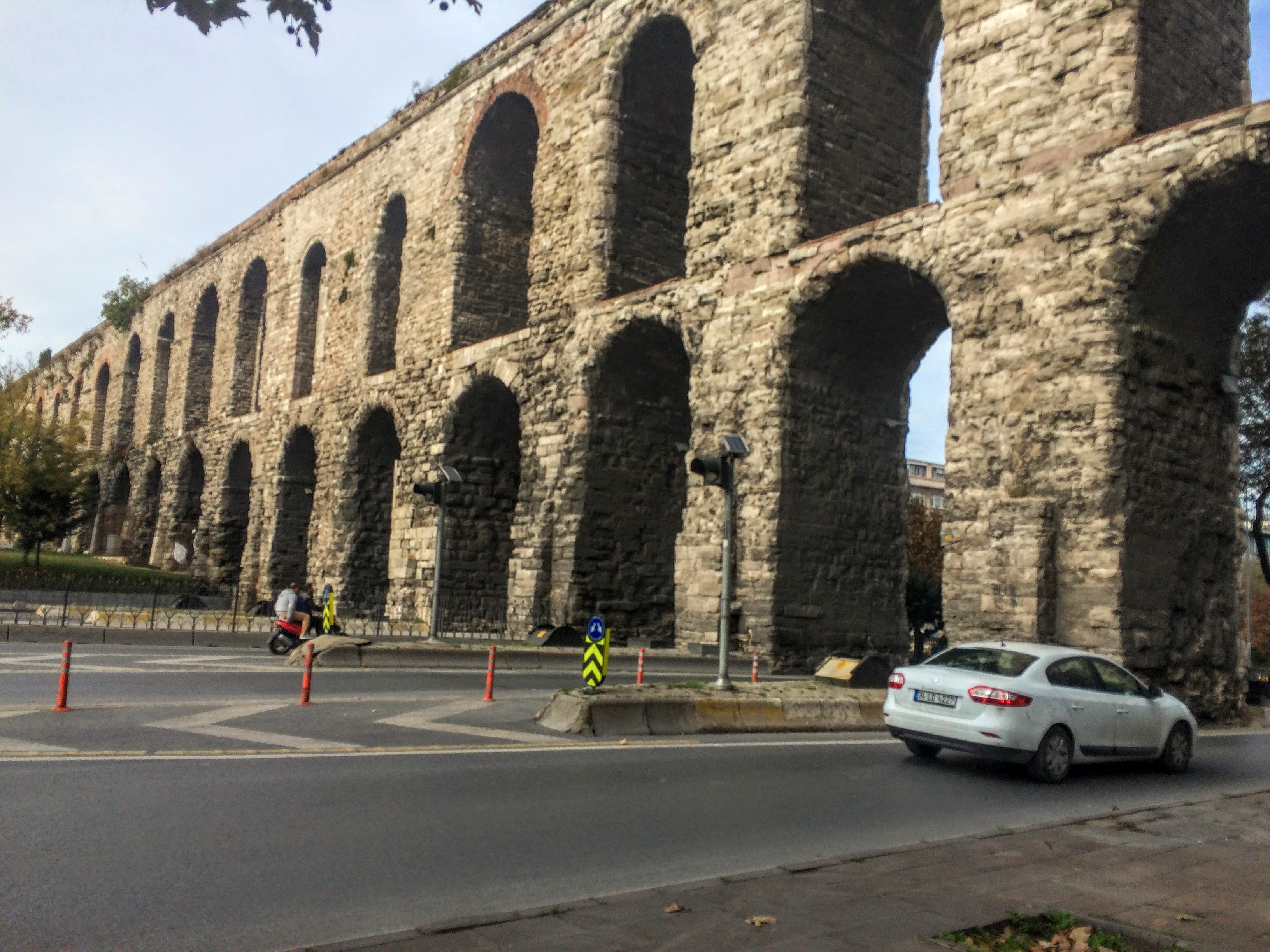 The aquaduct in 2016